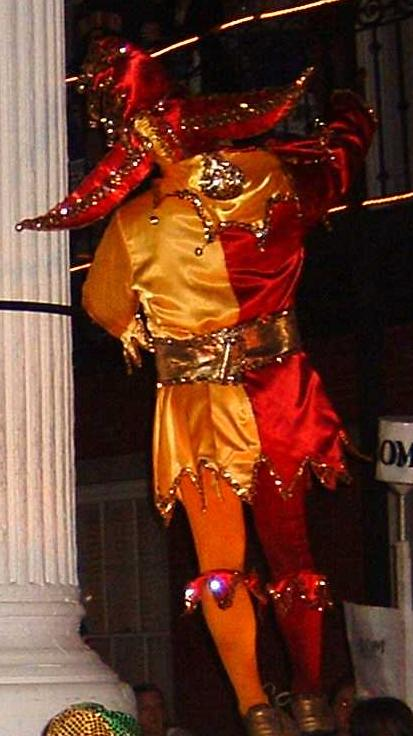 Mardi Gras in Mobile, Alabama, at the Order of Myths parade: the insignia float traditionally has Folly chasing Death around the Pillar of Life. The costumes for Folly have varied, but Death is usually dressed as a skeleton (retouched photo, 2007-02-20). Source: personal photo (retouched to photo-blur faces). Variations: OOM insignia float: Image:Mobile_MardiGras2007_OOM_parade_insignia_float.jpg; OOM Folly chasing Death: Image:Mobile_MardiGras2007_OOM_Folly_chasing_Death.jpg; OOM Folly costume: Image:Mobile_MardiGras2007_OOM_Folly_costume.jpg; OOM flame torch: Image:Mobile_MardiGras2007_OOM_flame_torch.jpg.